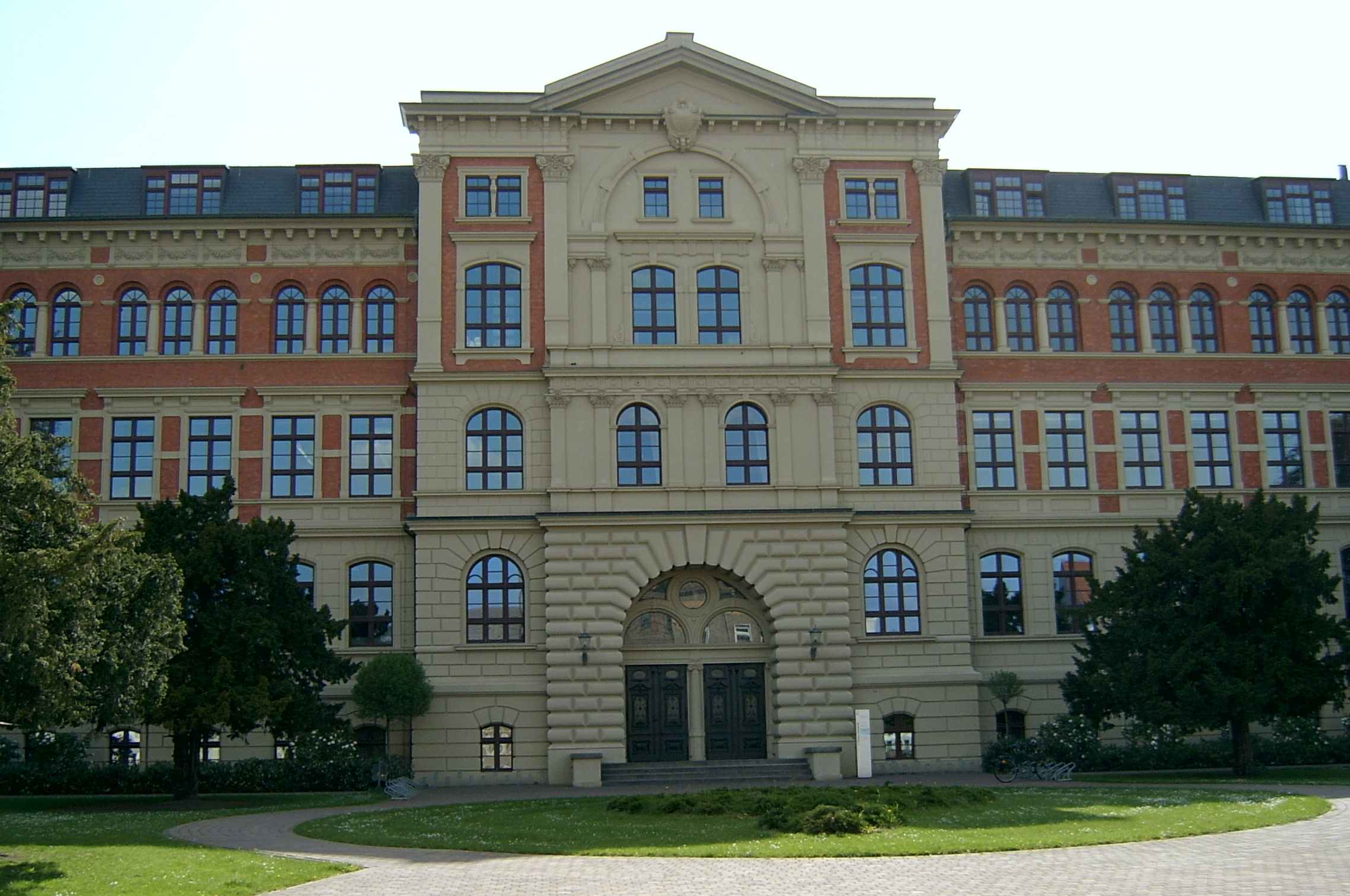 main building of the Fachhochschule Anhalt in Köthen (Anhalt).